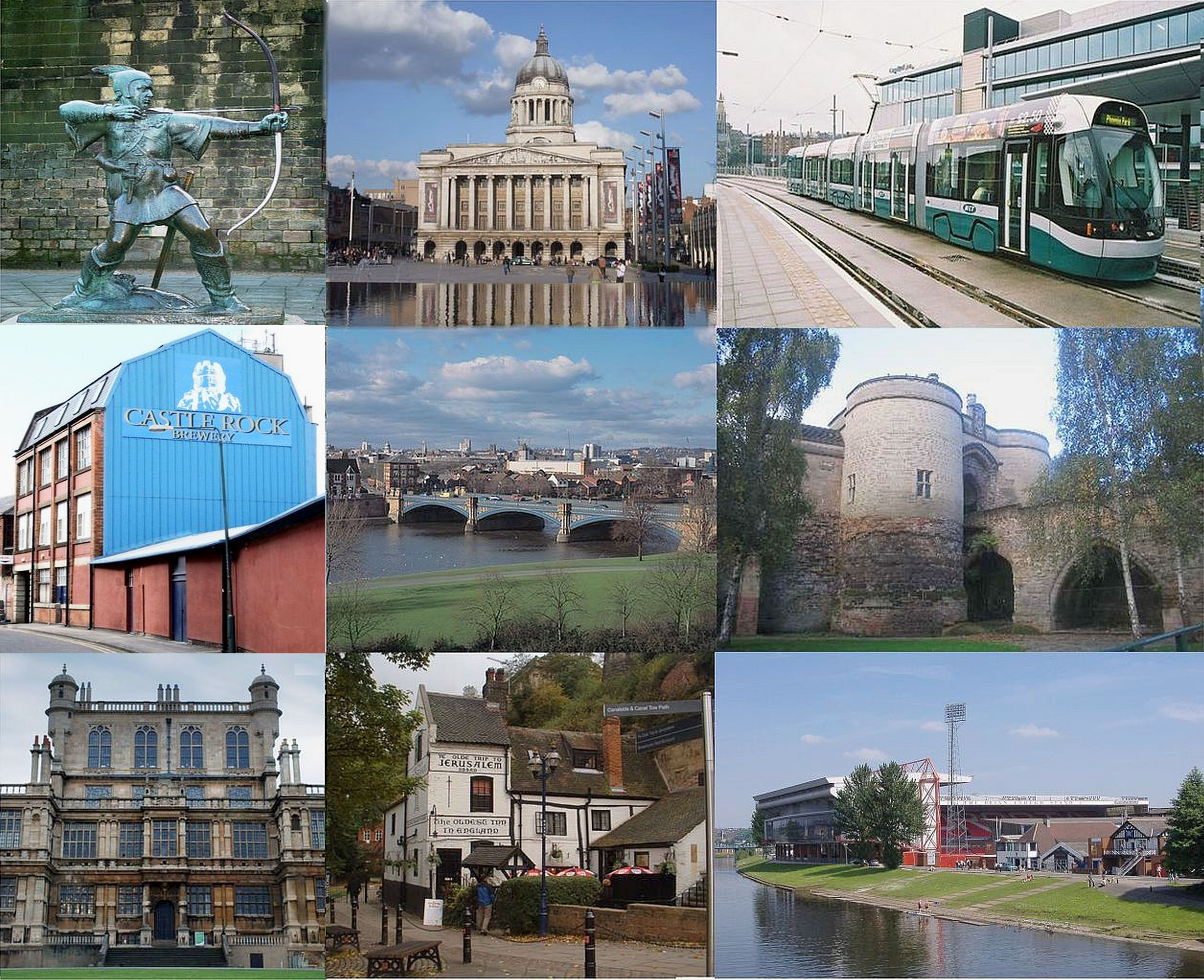 Views of Nottingham (collage)